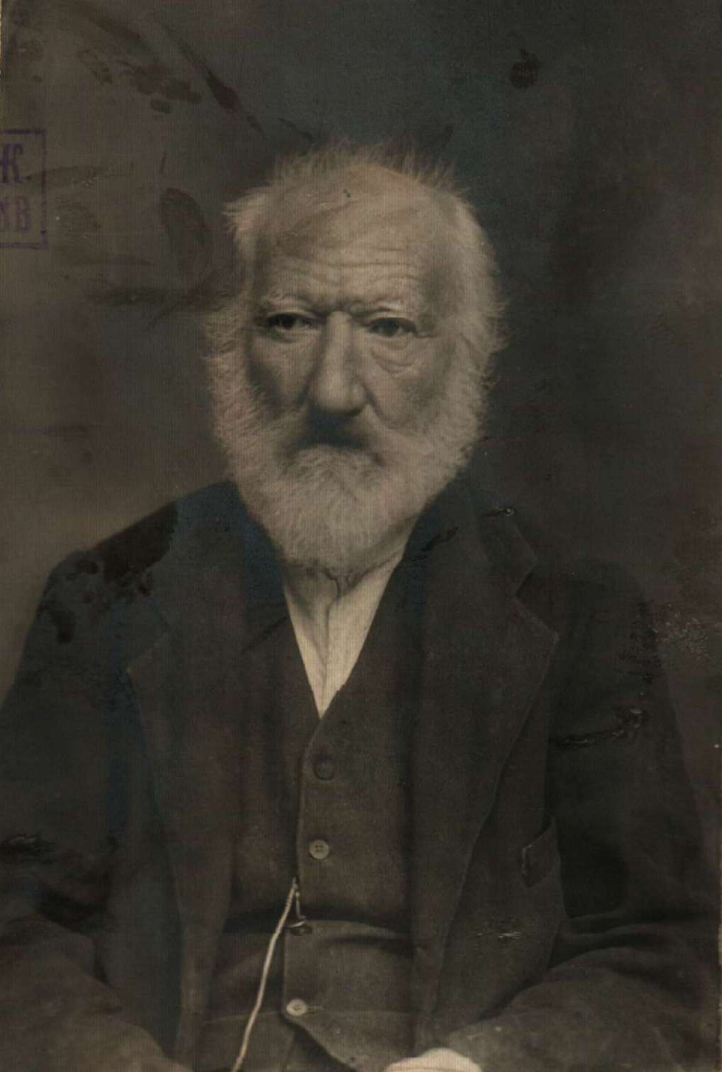 Oton Ivanov (1850-1934